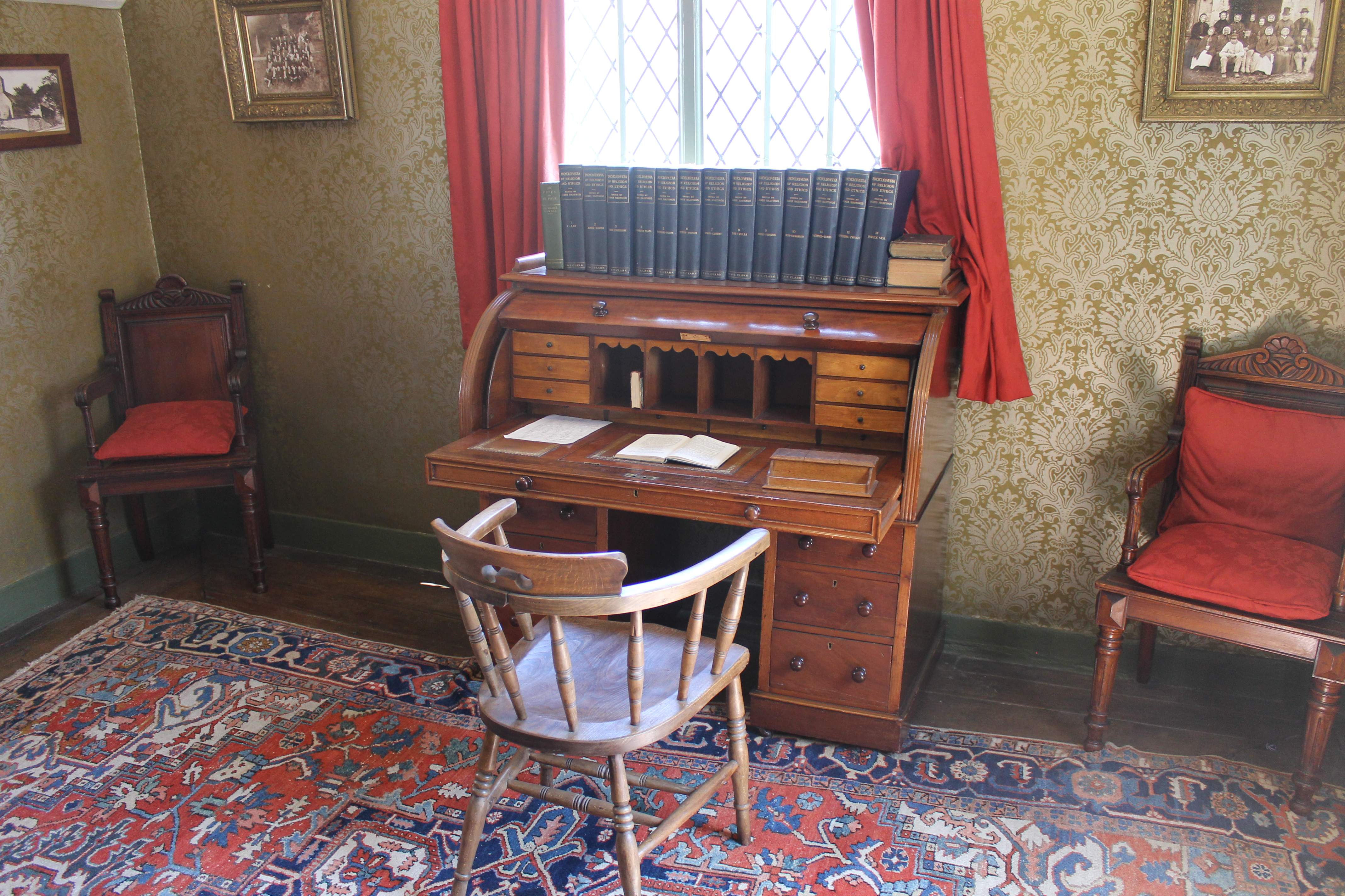 The Rector's Study. Nantclwyd y Dref (old name: Tŷ Nantclwyd) stands on Castle Street, Ruthin, denbighshire, North Wales. Grade 1 Listed Building.